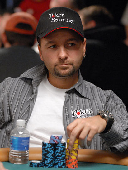 Daniel Negreanu at the WPT's Doyle Brunson Five Diamond World Poker Classic in 2007